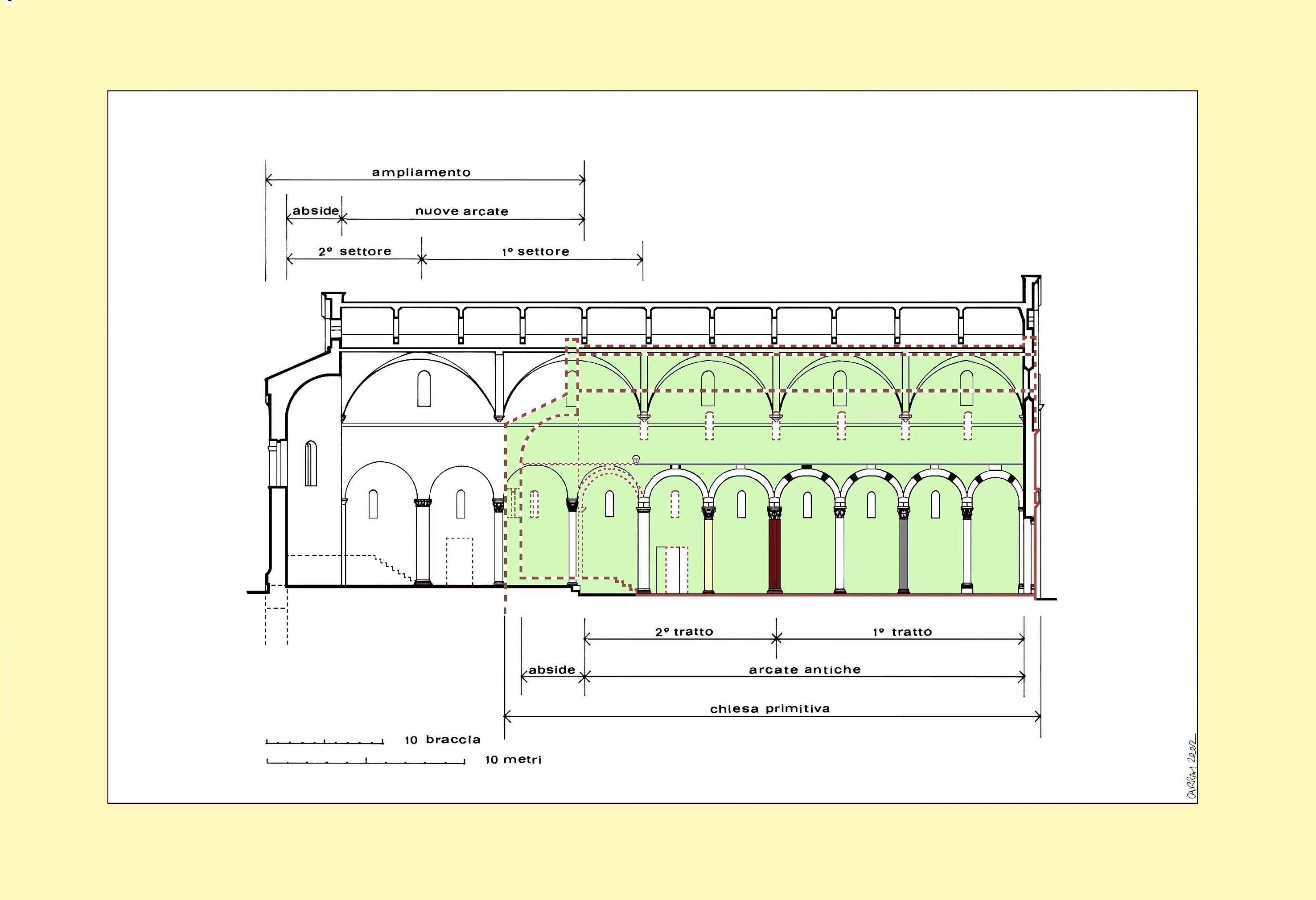 Sant'Alessandro, Lucca. Sezione longitudinale. Il volume della chiesa primitiva è evidenziato in verde, a tratteggio rosso le parti scomparse o modificate. A tratteggio nero le parti scomparse o modificate pertinenti alla fase costruttiva più recente.